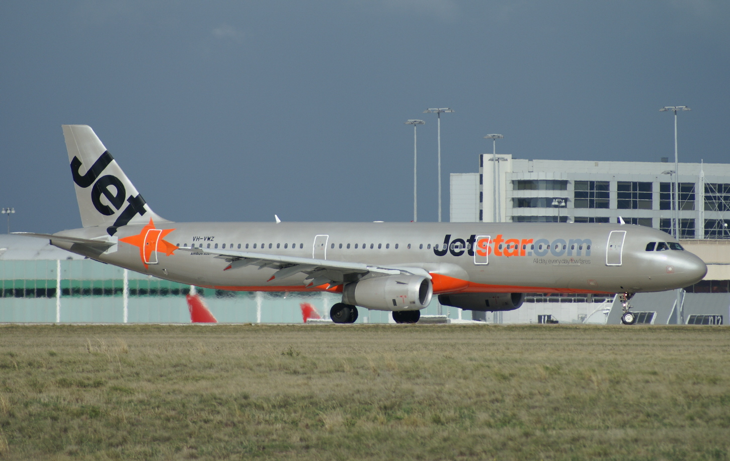 Jetstar Airbus A321-200 off to Brisbane new to Jetstar this Month